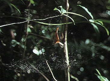 web of Parasteatoda japonica from Okinawa.